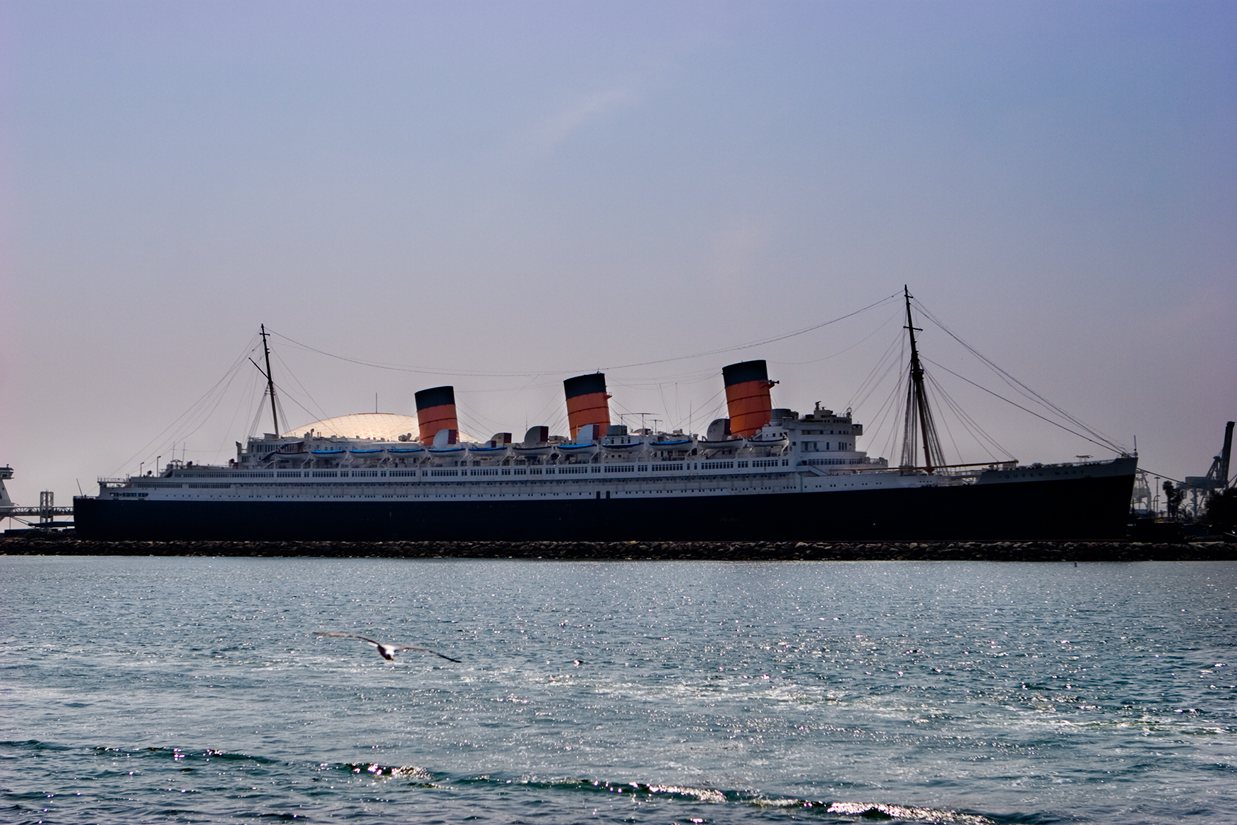 Queen Mary, Long Beach, California, USA